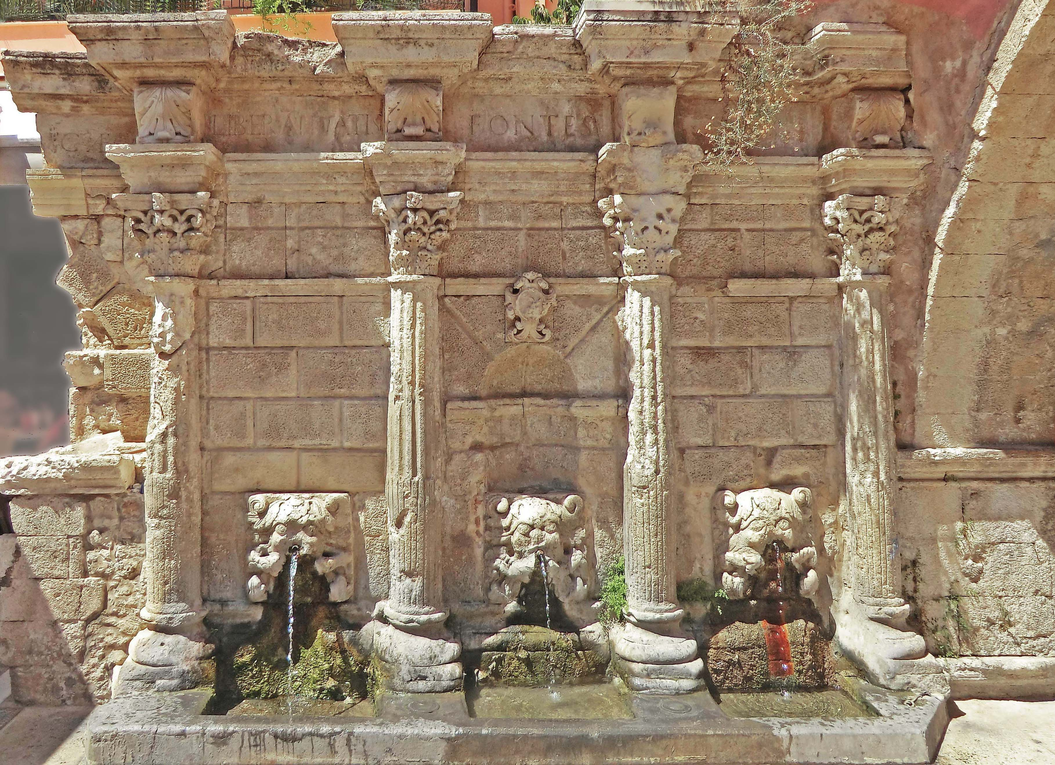 Venetian Rimondi Fountain in Rethymnon in Crete.